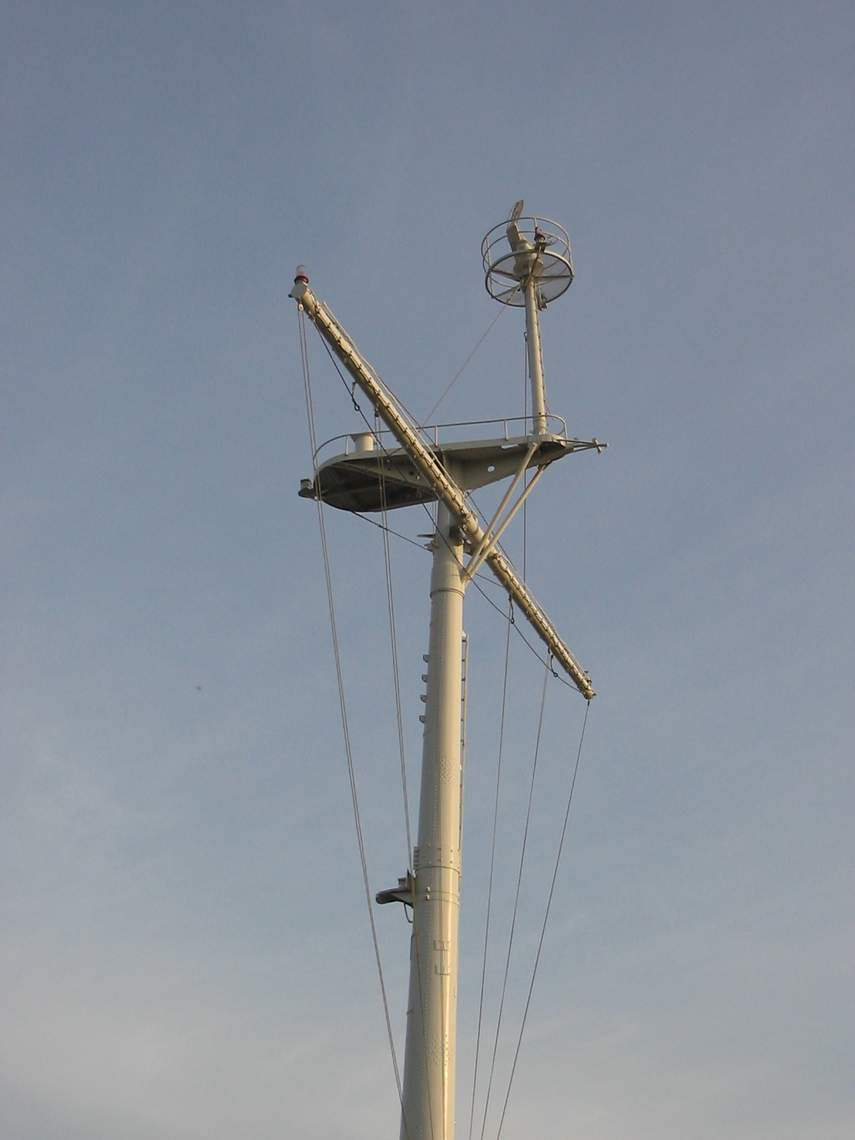 The mast of the former U.S. Navy light cruiser USS Oakland (CL-95) at the entrance of the Middle Harbor Shoreline Park in Oakland, California (USA), 5 February 2007.